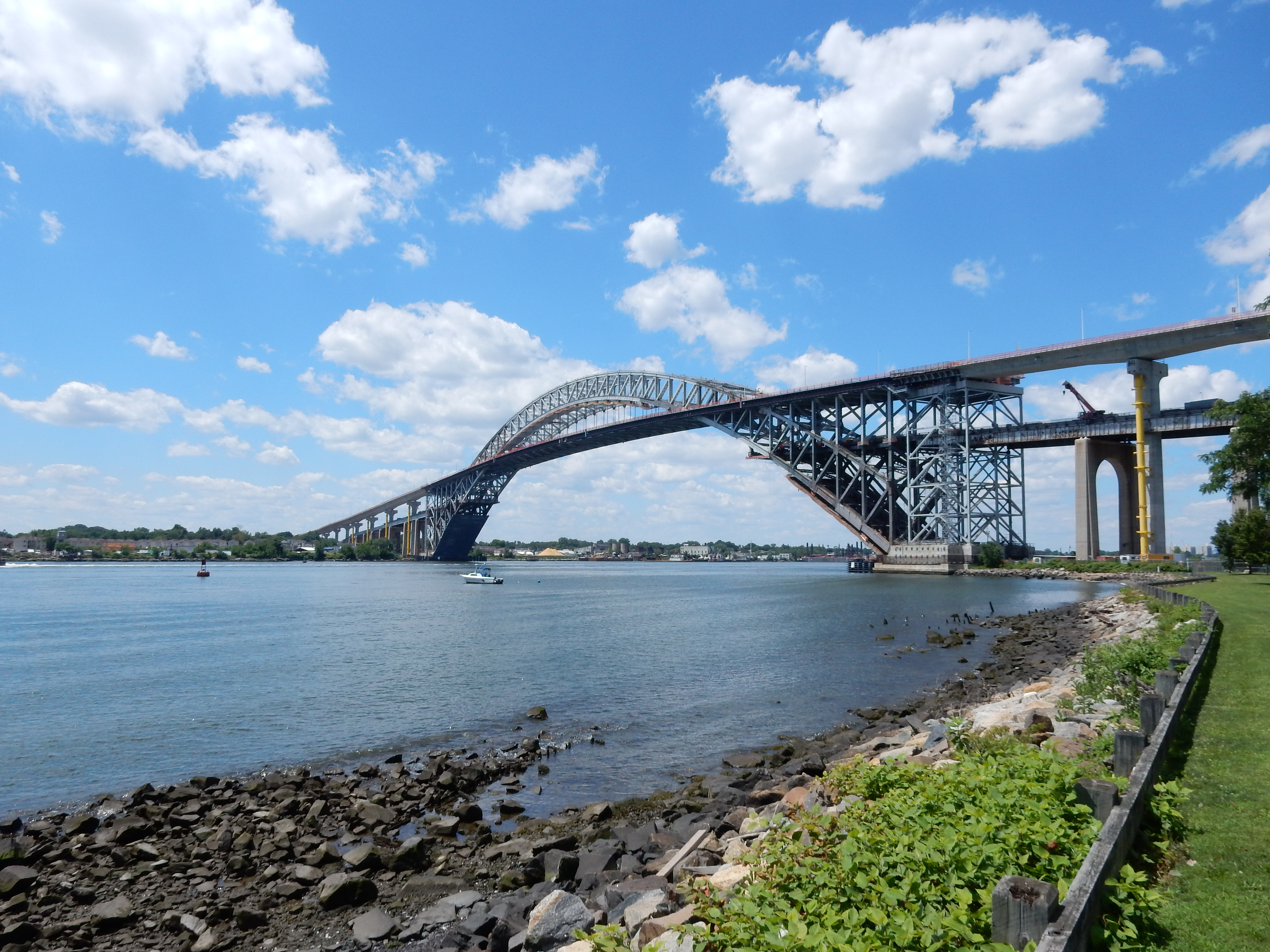 The Bayonne Bridge with older roadway partially removed, allowing larger "new Panamax" ships to pass under.